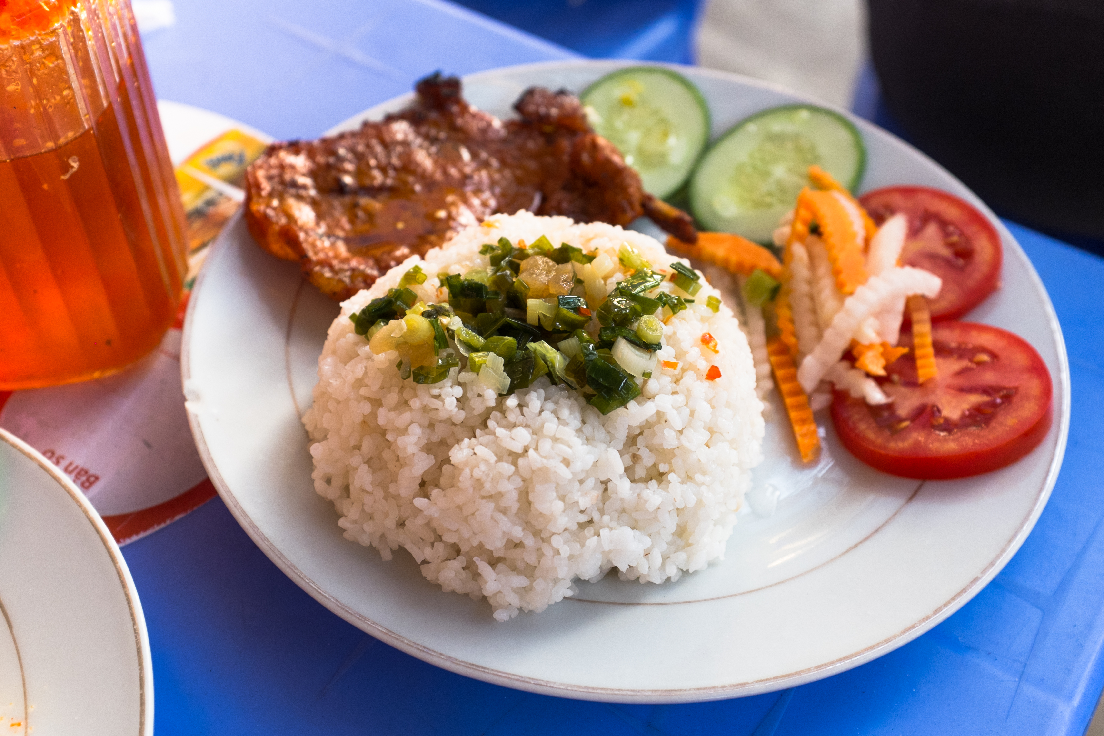 Vietnamese rice served with grilled pork (thịt nướng) and fish sauce (nước mắm).